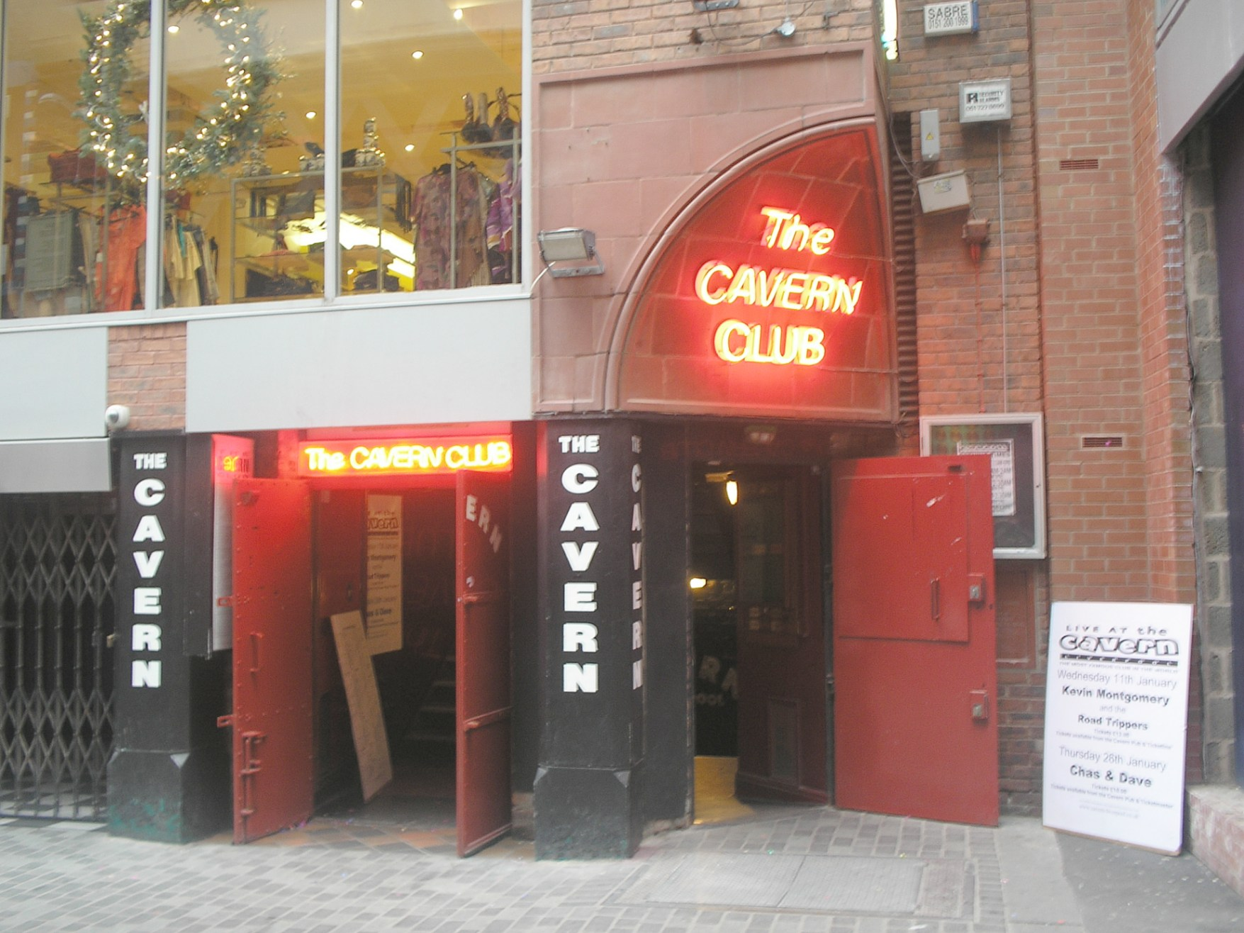 The Cavern Club as seen from the outside in January 2006